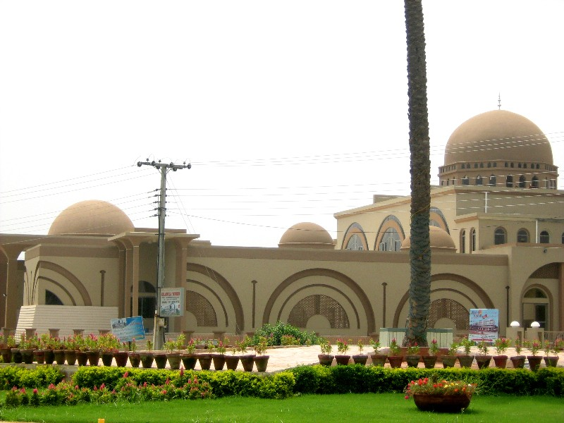 This is the central mosque of Valancia (a neighbourhood in Lahore).